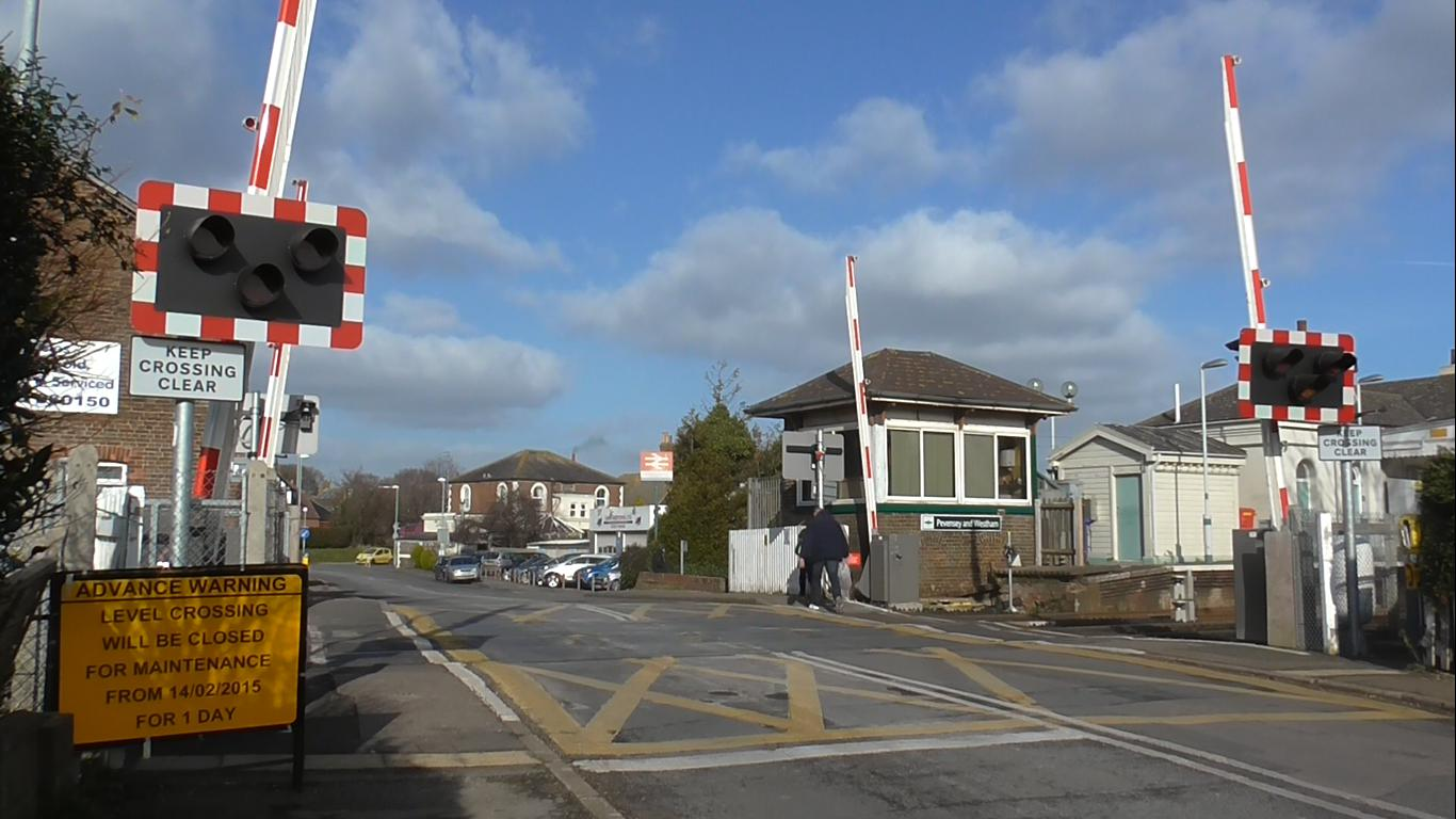 The crossing by the old Signalbox next to Pevensey & Westham station. This crossing is fitted with the obstacle detection system